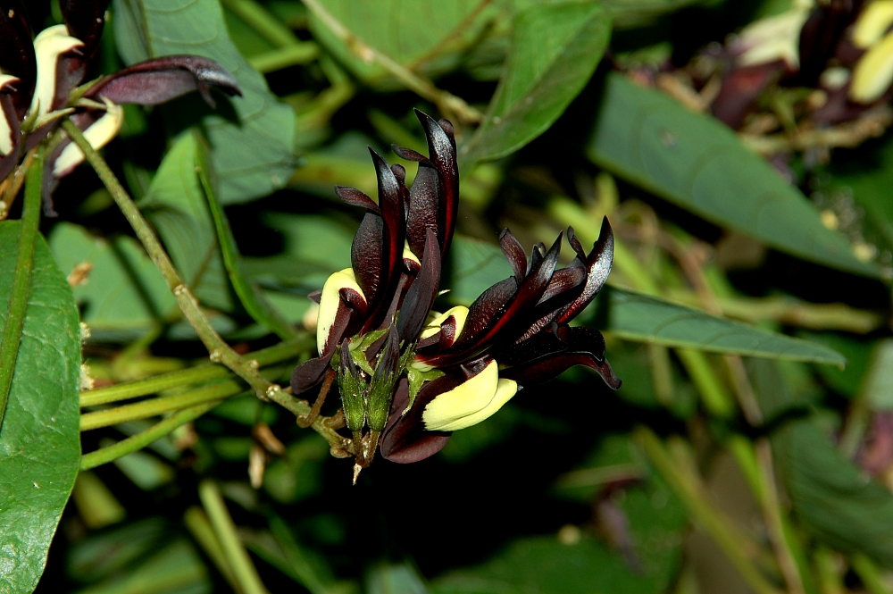 Kennedia nigricans or Kennedya nigricans, known from West Australia, photographed in the Botanical Garden Berlin, Germany